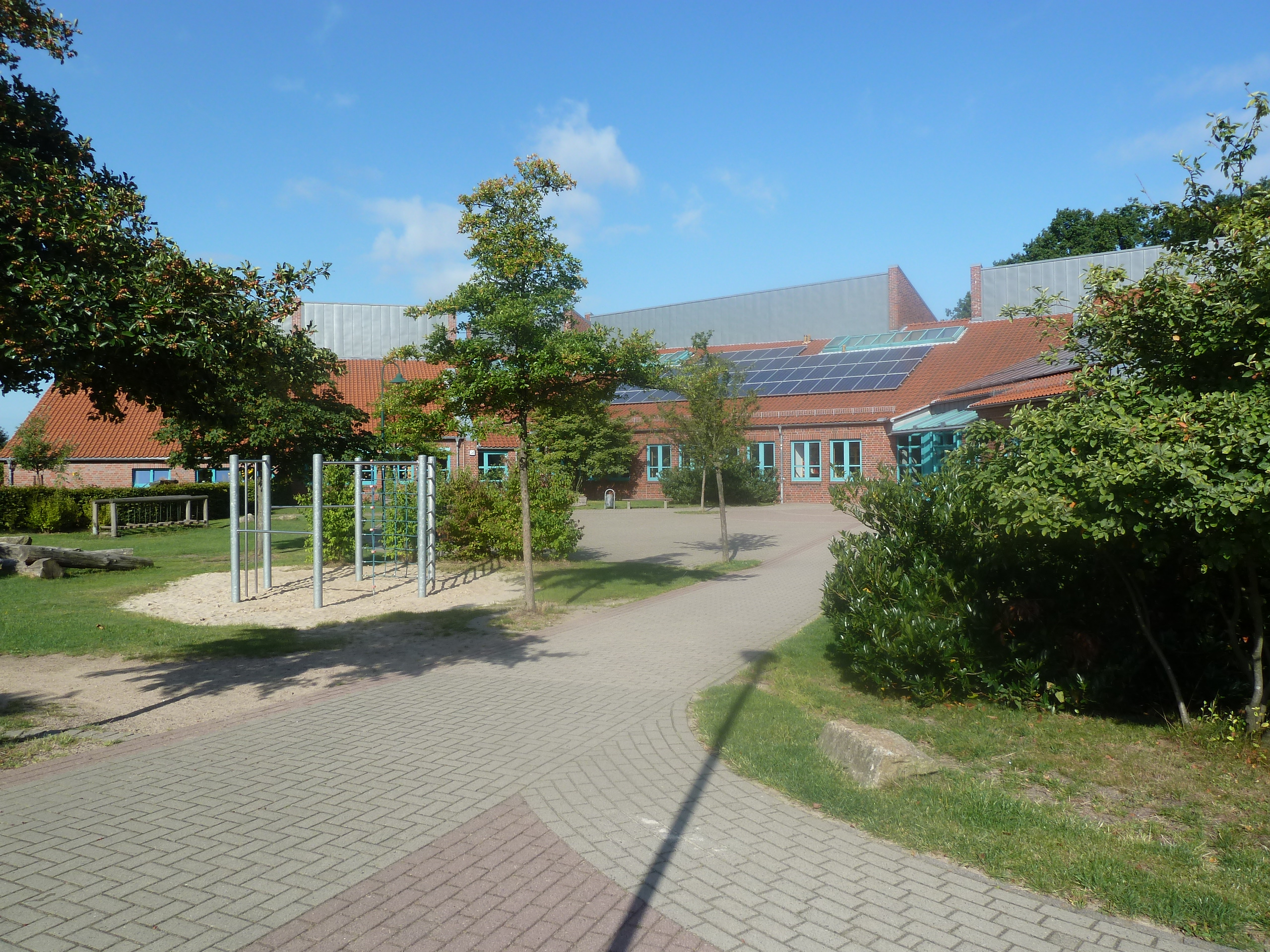 Germany, Schneverdingen, building "Grundschule Hansahlen"